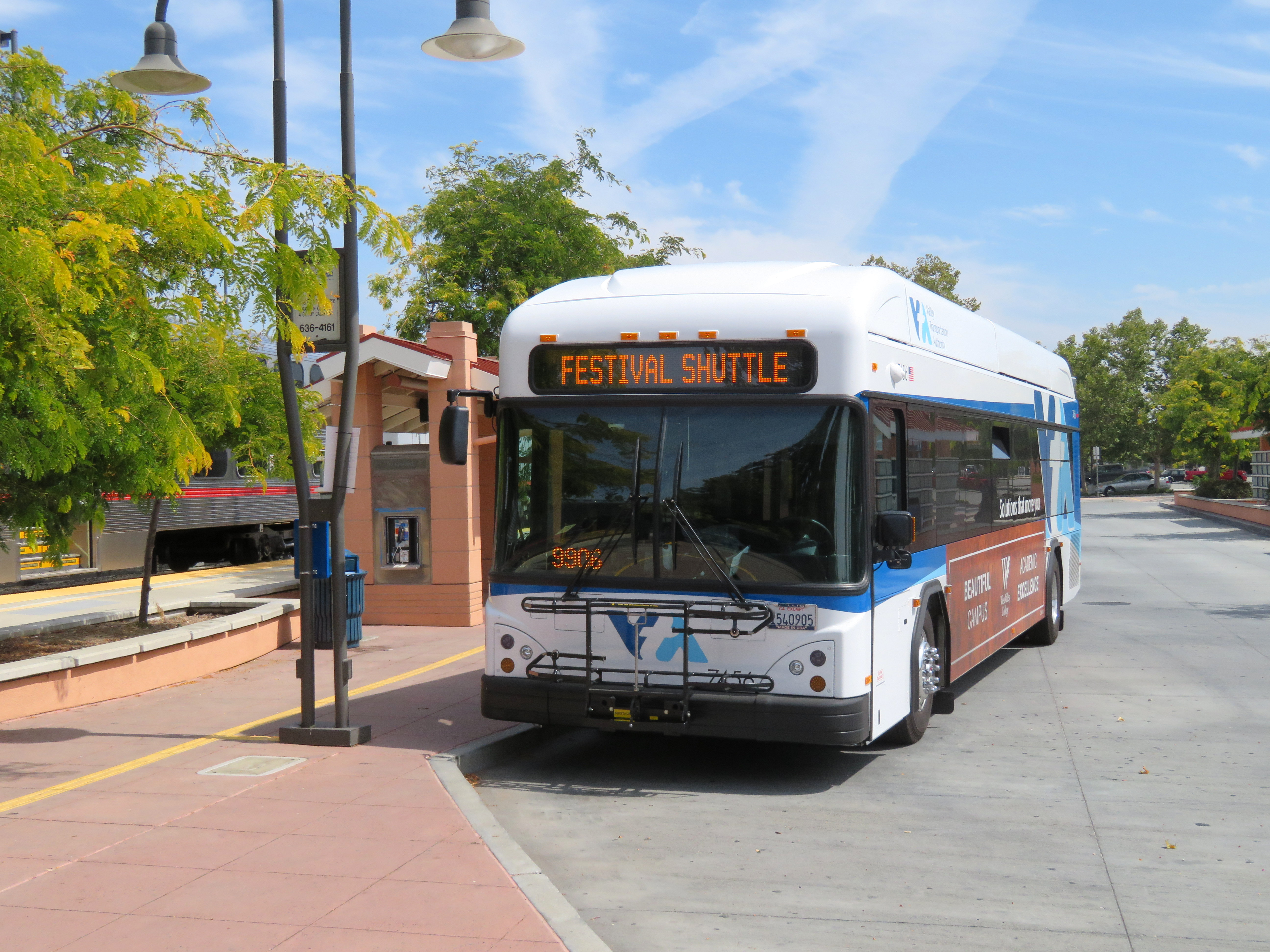 Gilroy Garlic Festival shuttle bus at Gilroy station in July 2018